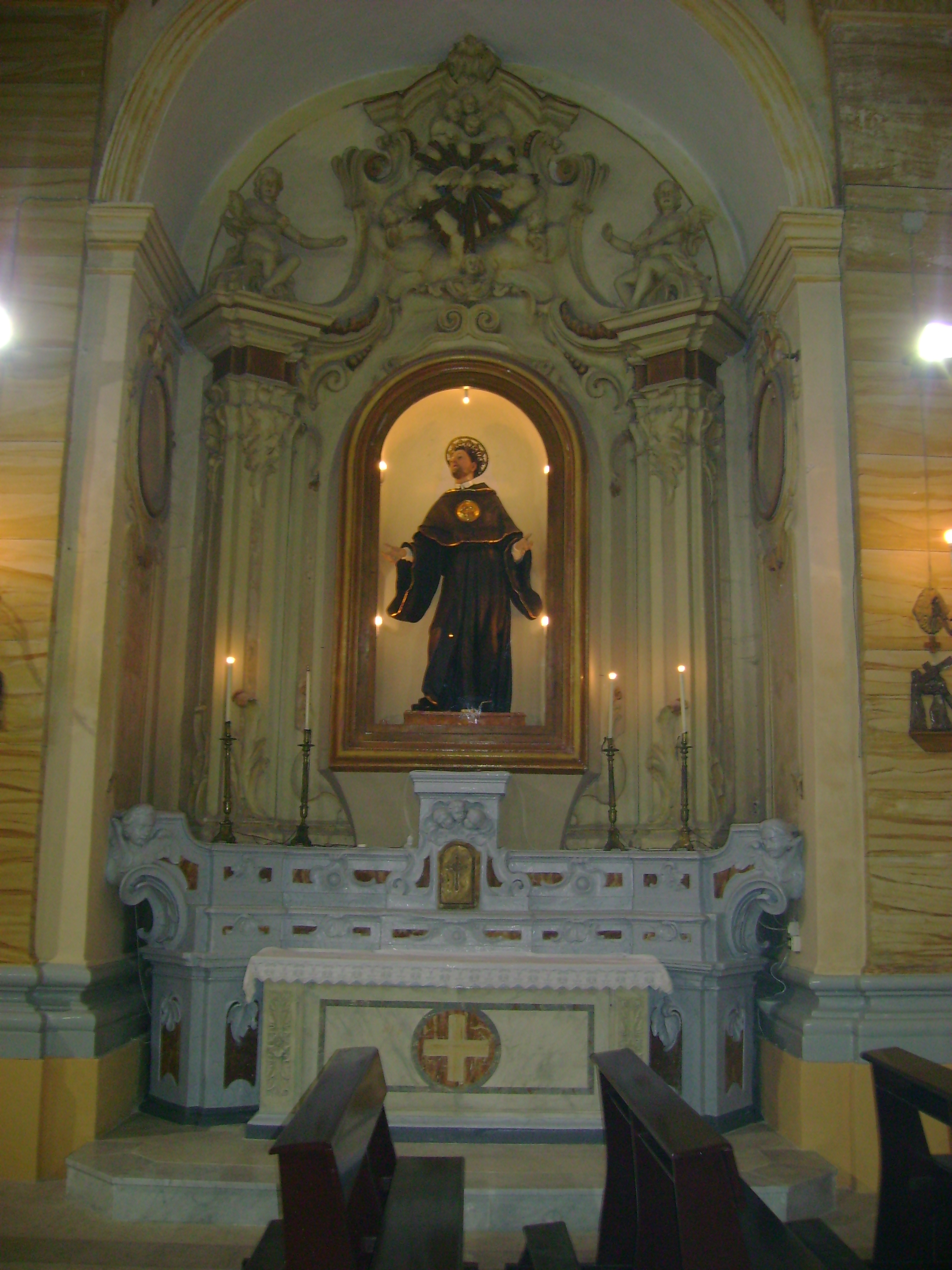 Altair of st. Nicholas from Tolentino in Taranto